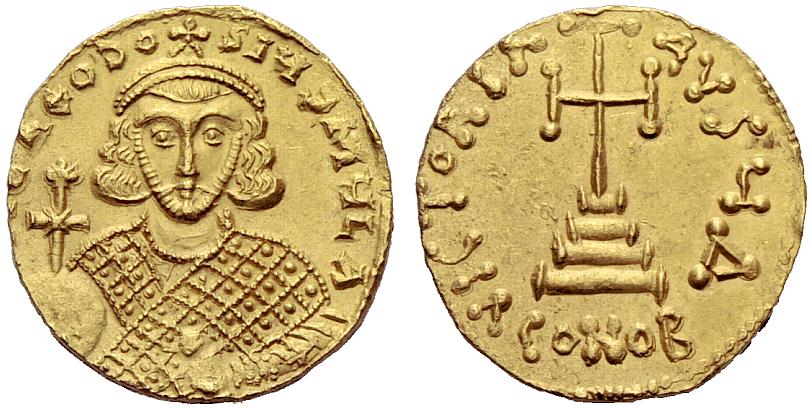 Theodosios III or Theodosius III (Greek: Θεοδόσιος Γ΄) was Byzantine Emperor from 715 to 25 March 717.